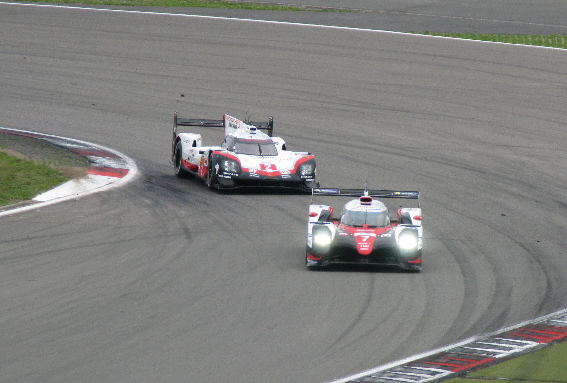 7 Toyota TS050 of Toyota Gazoo Racing, #2 Porsche 919 of Porsche LMP Team.